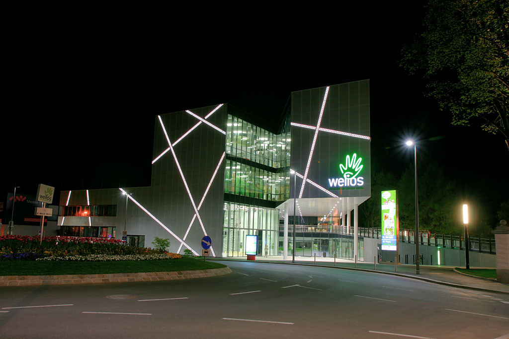 View of the Welios, from the parkin lot nearby the roundabout